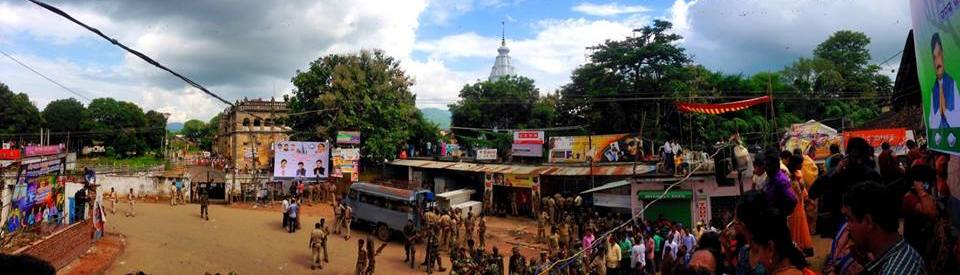 Manikeshwari Temple (Panoramic View)